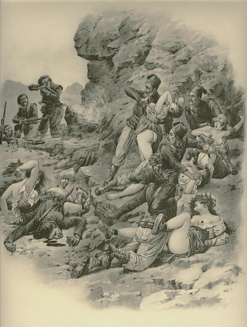 Balkan atrocities